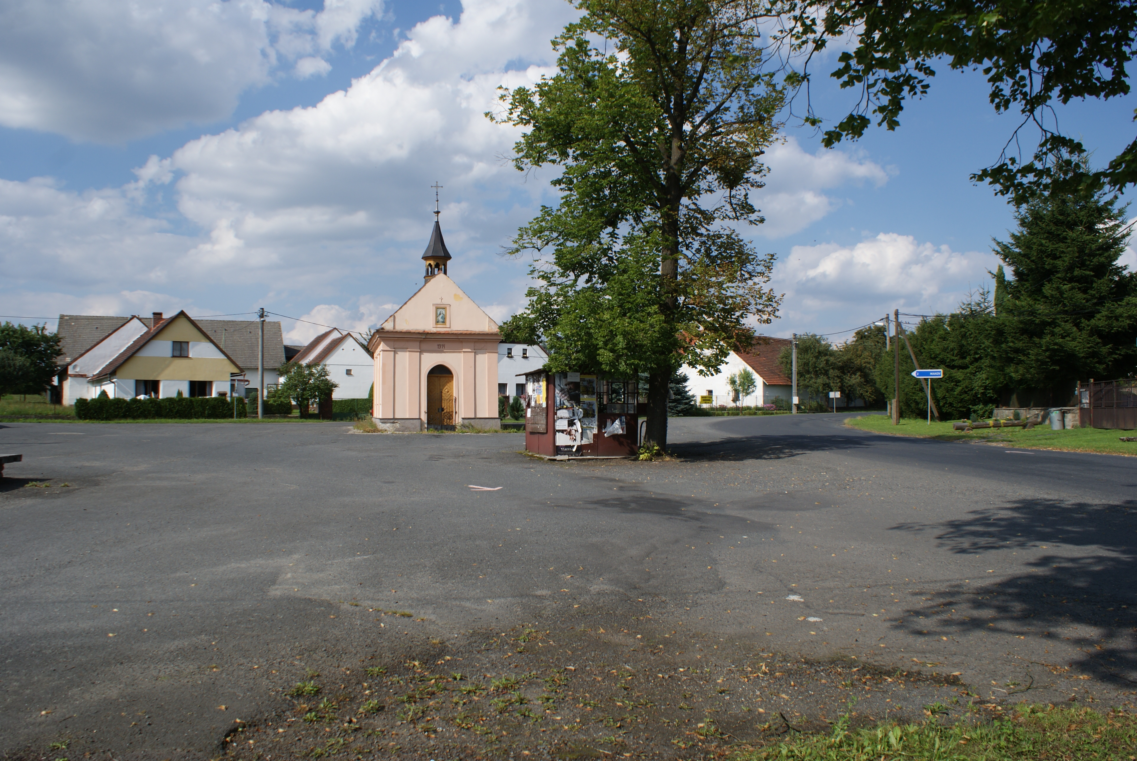 Petrovičky (Předslav), a village in Klatovy District, Czech Rep., the village common.